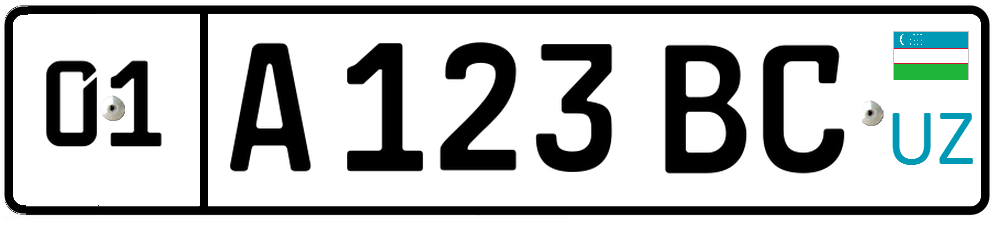 Uzbekistan private license plate